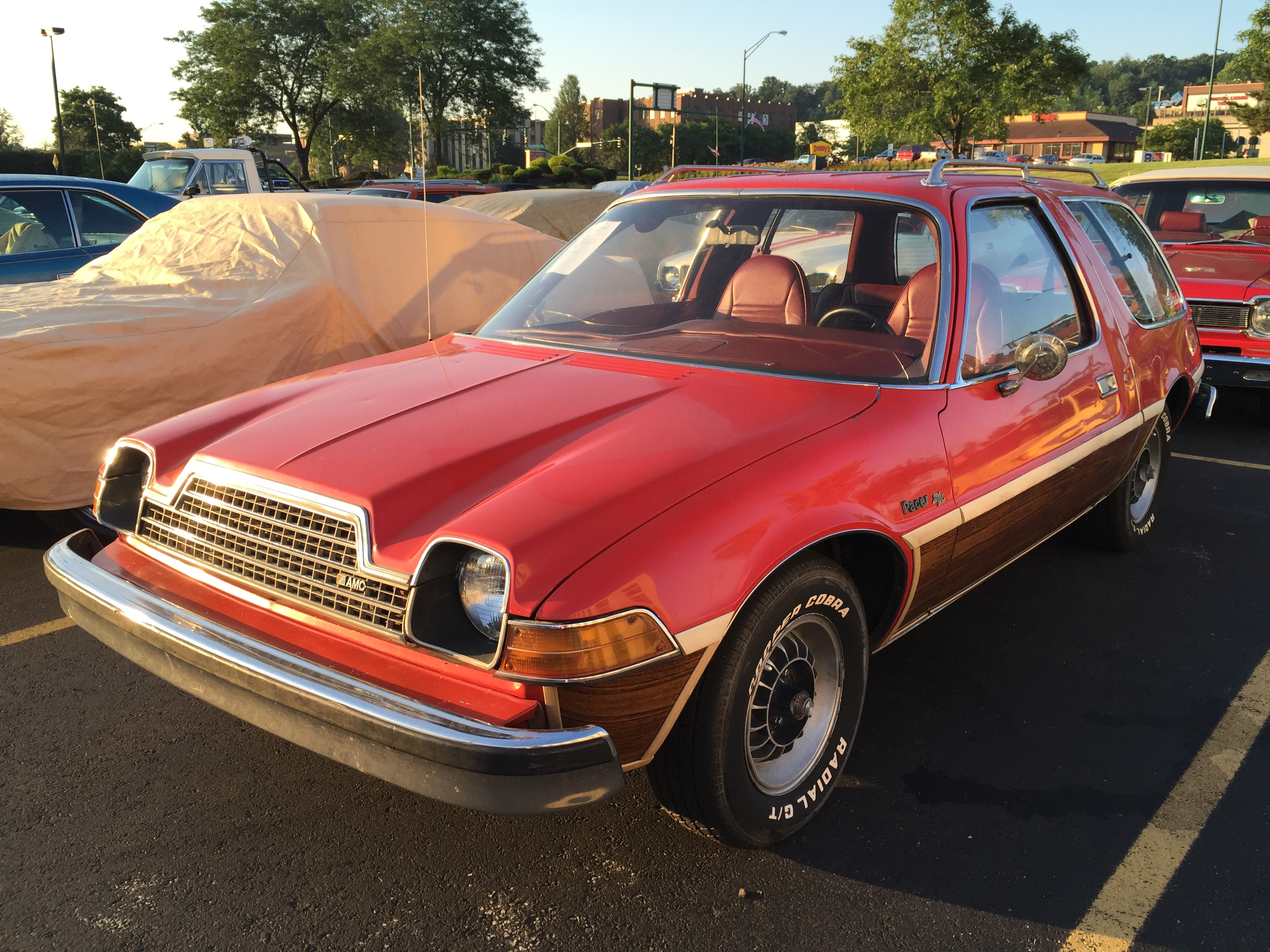 1978 AMC Pacer D/L station wagon built by American Motors. This innovative two-door compact has the optional 304 (5.0L) V8 engine, one of only 2,514 Pacers factory equipped with this engine for the 1978 model year. Note, the woodgrain decal seems to have been removed on the right side. Picture taken during the American Motors Owners Association (AMO) annual convention that was held July 2015 near Cleveland, Ohio.